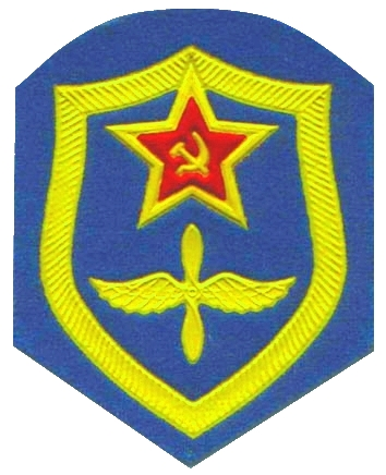 Emblem of the soviet armed forces 1960 to 1991, Soviet Army (military branches, service branches or armed services), sleeve badge (appliquéd) right hand upper arm (dress uniform/ parade uniform) to be used for the ranks OR1 to 8, and WO1 to 2, here: – “USSR Air Force” (general) and Aviation of the USSR Air defence, design 1985.